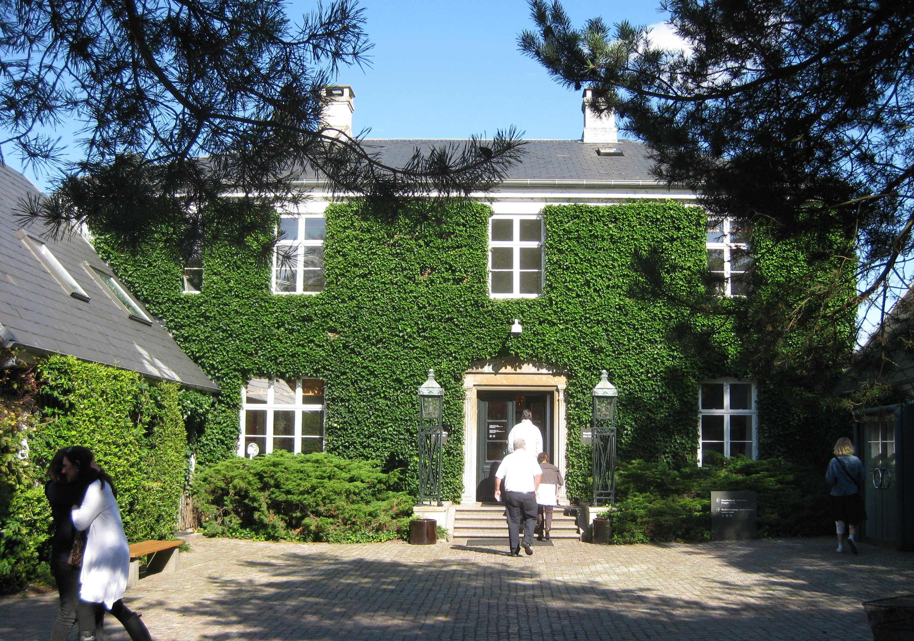 Louisiana museum of modern art in Humlebæk, Denmark